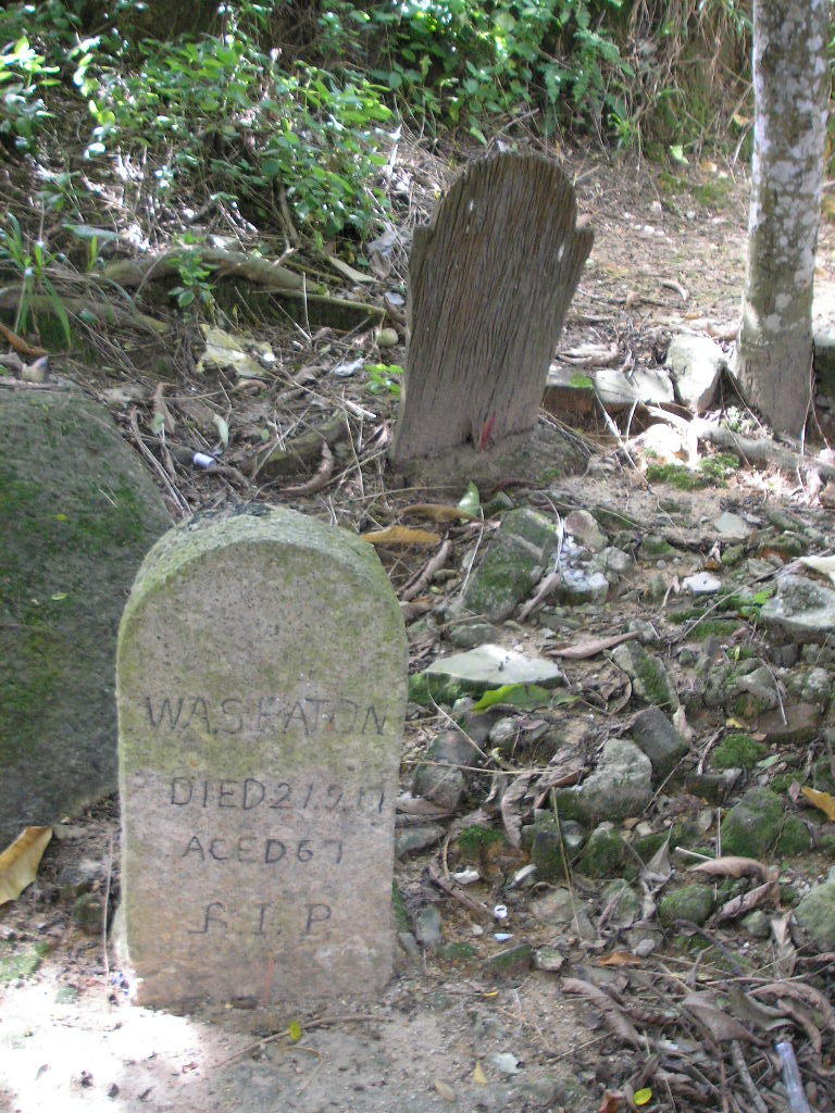 apparently old Dutch graves, on Pangkor Island.